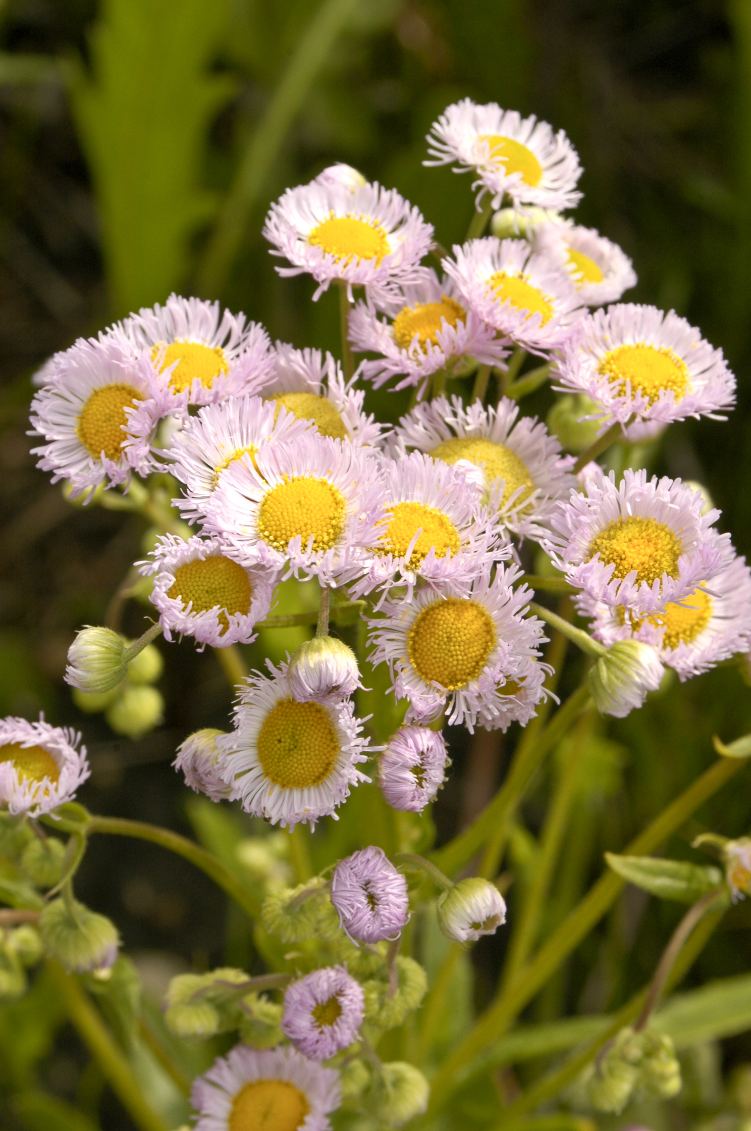 close up image of Erigeron philadelphicus PHILADELPHIA FLEABANE at the James Woodworth Prairie Preserve - a single flower head with mulltiple buds opening to full bloom